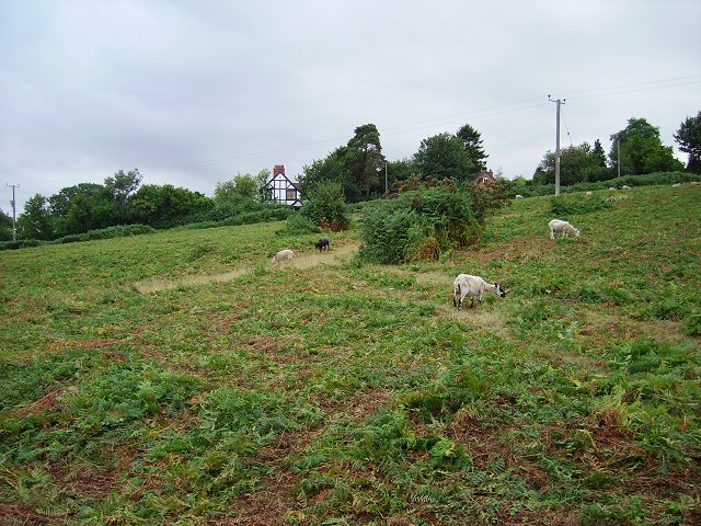 Bircher Common. The lower part of the common is bracken covered. There used to be pigs running loose here, but the 1967 foot and mouth got them. The nearest it came to us. (note to NT bully boys: I enjoyed parking near here as you are allowed to do within 5m of a public road and not causing an obstruction.)